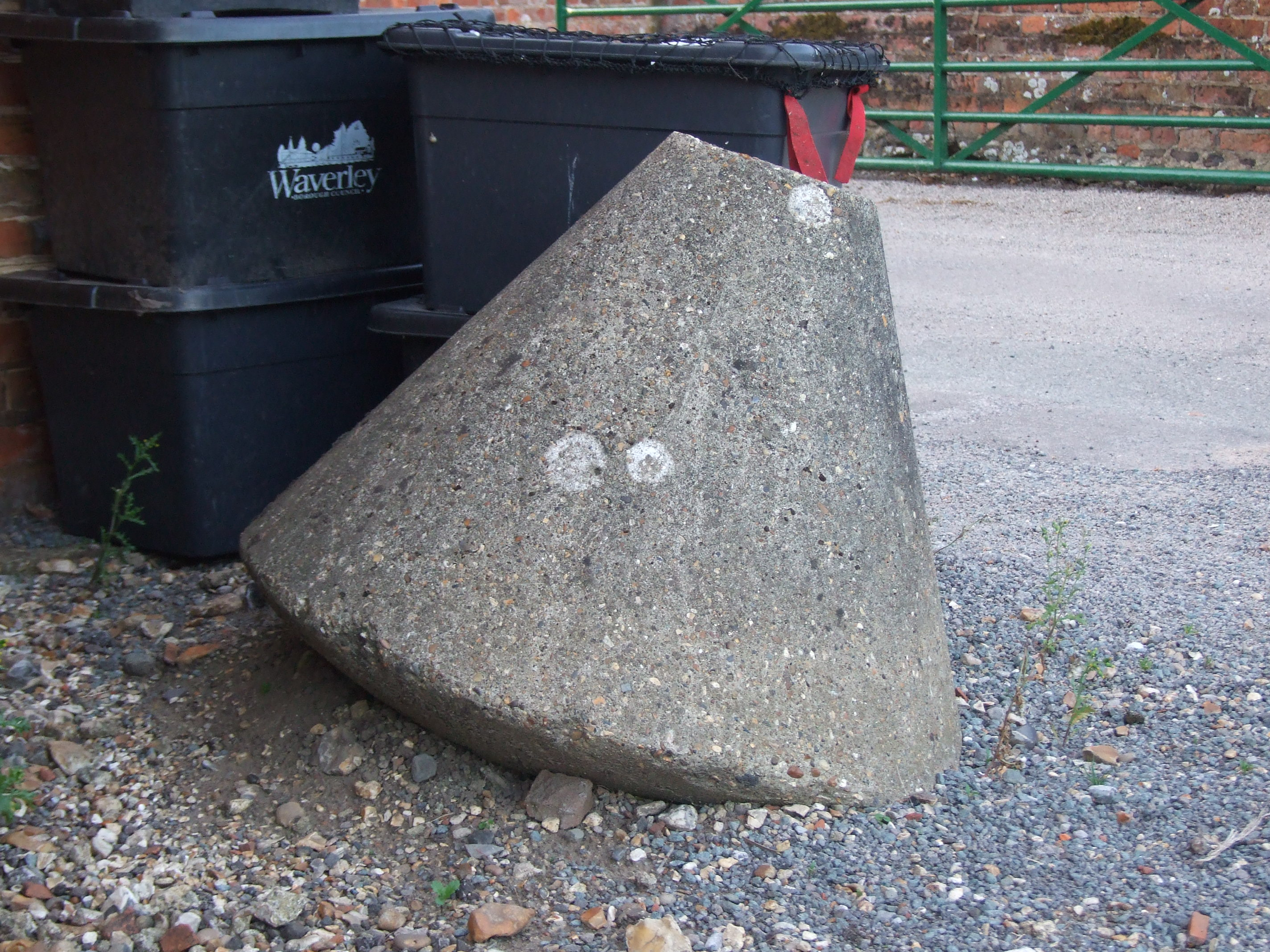 Buoy - a type of anti-tank obstacle. Coxbridge Farm, Farnham